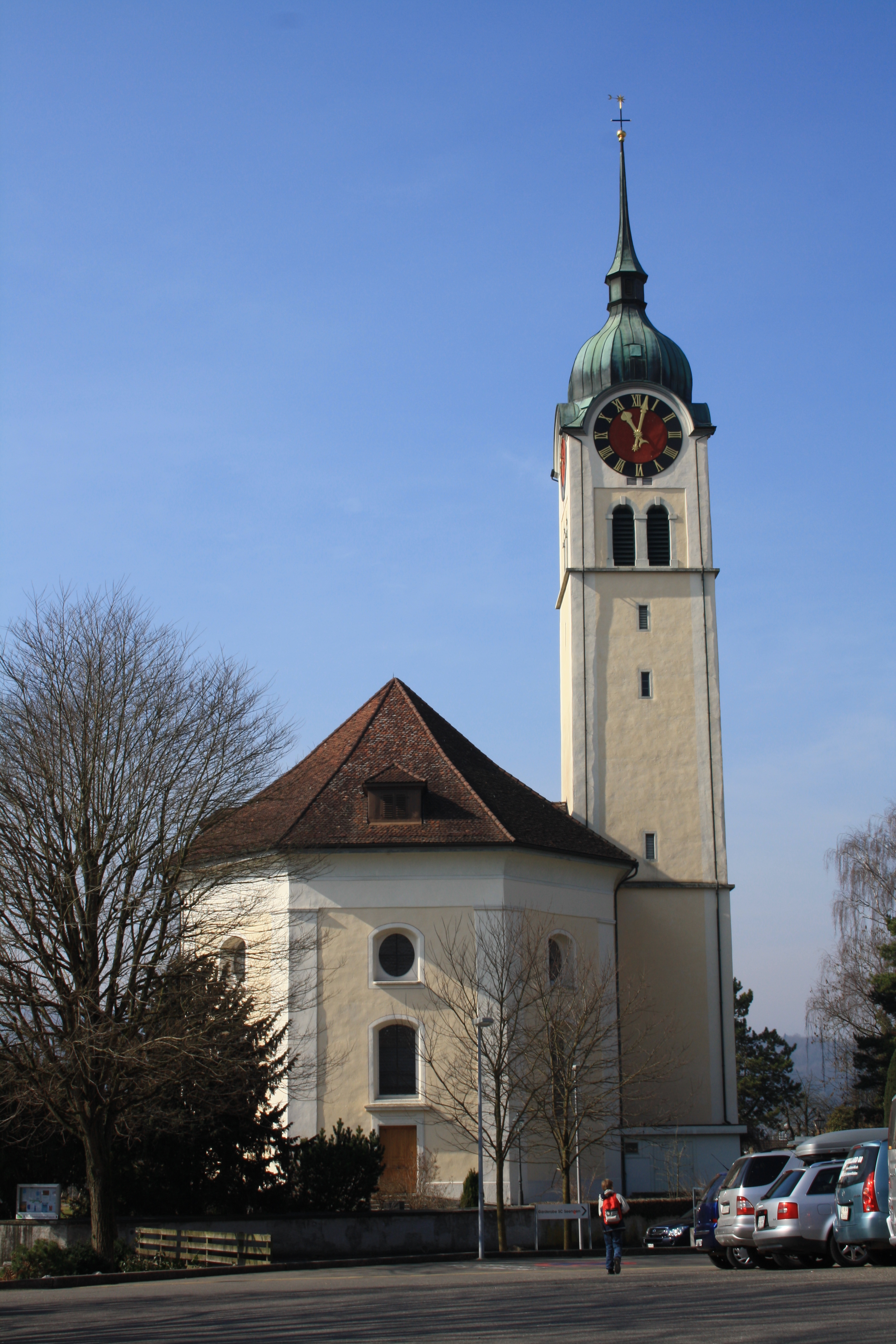 Reformed church of Seengen